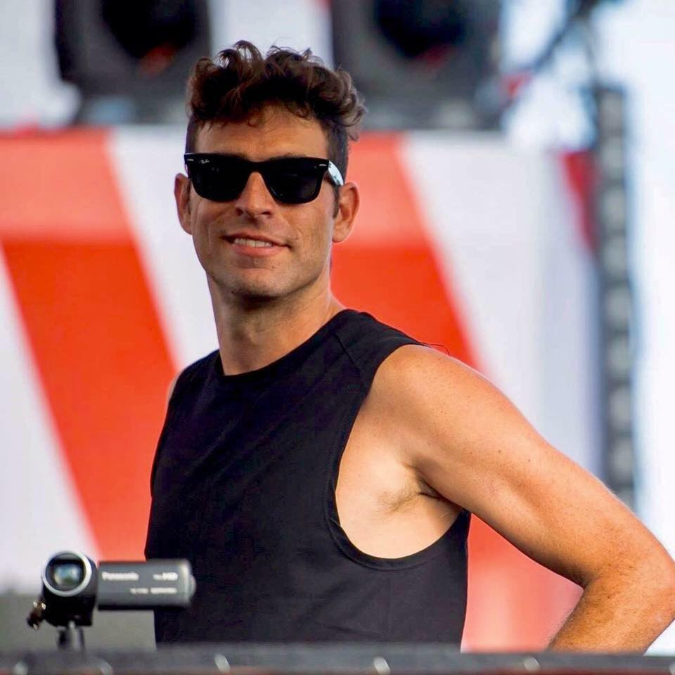 Ronen maili, 2015